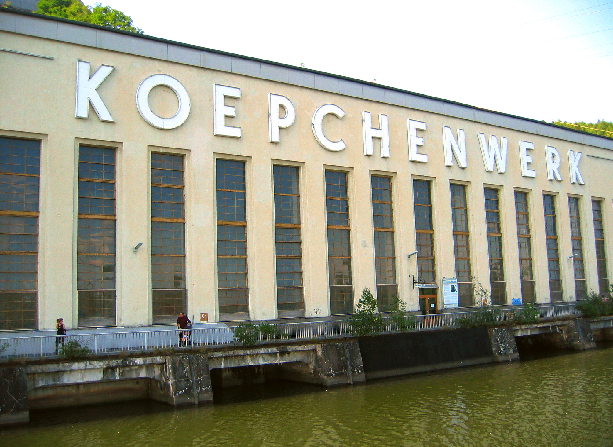 Pumped storage plant "Koepchenwerk" (old building) at the Hengsteysee (Ruhr), Herdecke, North Rhine-Westphalia, Germany.